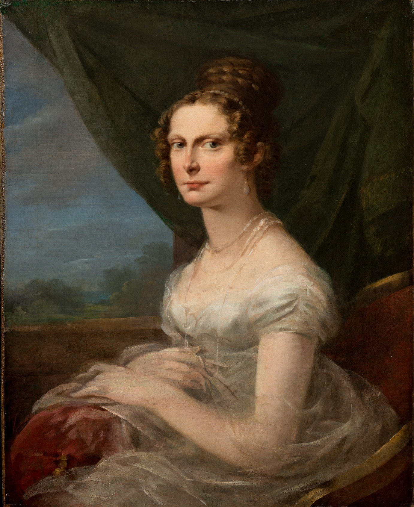 Portrait of Empress Alexandra Feodorovna (Charlotte of Prussia) (1798-1860), Emperor's Nicholas I wife